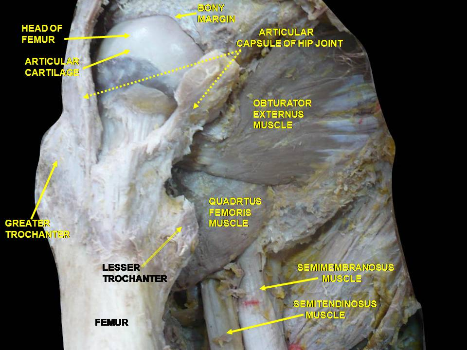 Anatomical dissections